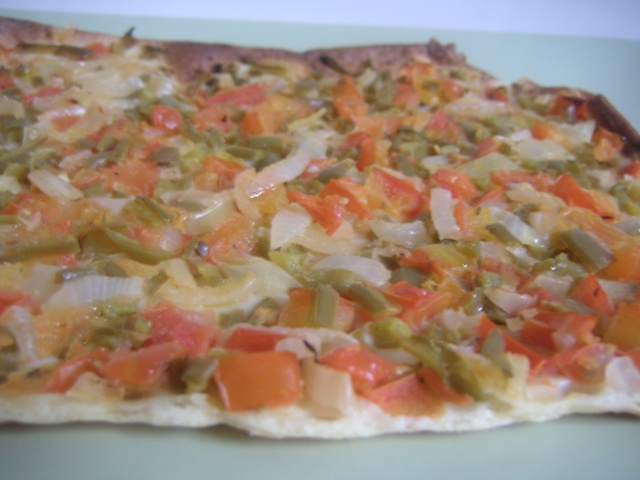 Coca de trempó. Typical dish of the Catalan Countries and Balear Islands. The "coca" is the concept consisting of bread covered with other things in a Catalan style while "trempó" is a typique Balear topping made with tomatoes, onion and pepper.